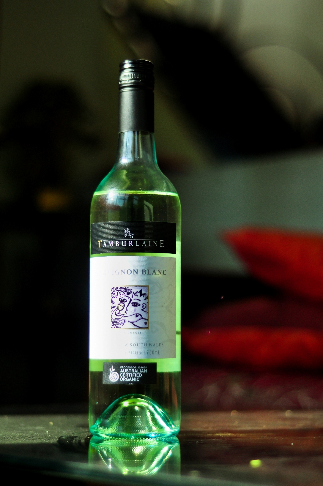 Sauvignon Blanc produced by Tamburlaine. An Australian Organic Wine from New South Wales